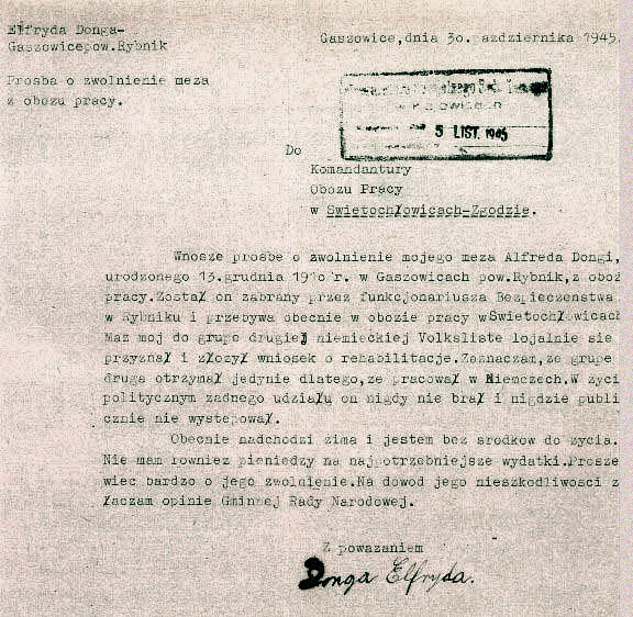 Document from IPN archives. A plea in the Polish language by Elfryda Donga asking for the release of her husband from Zgoda labour camp. He was a Polish civilian from Upper Silesia forced to work in Nazi Germany.